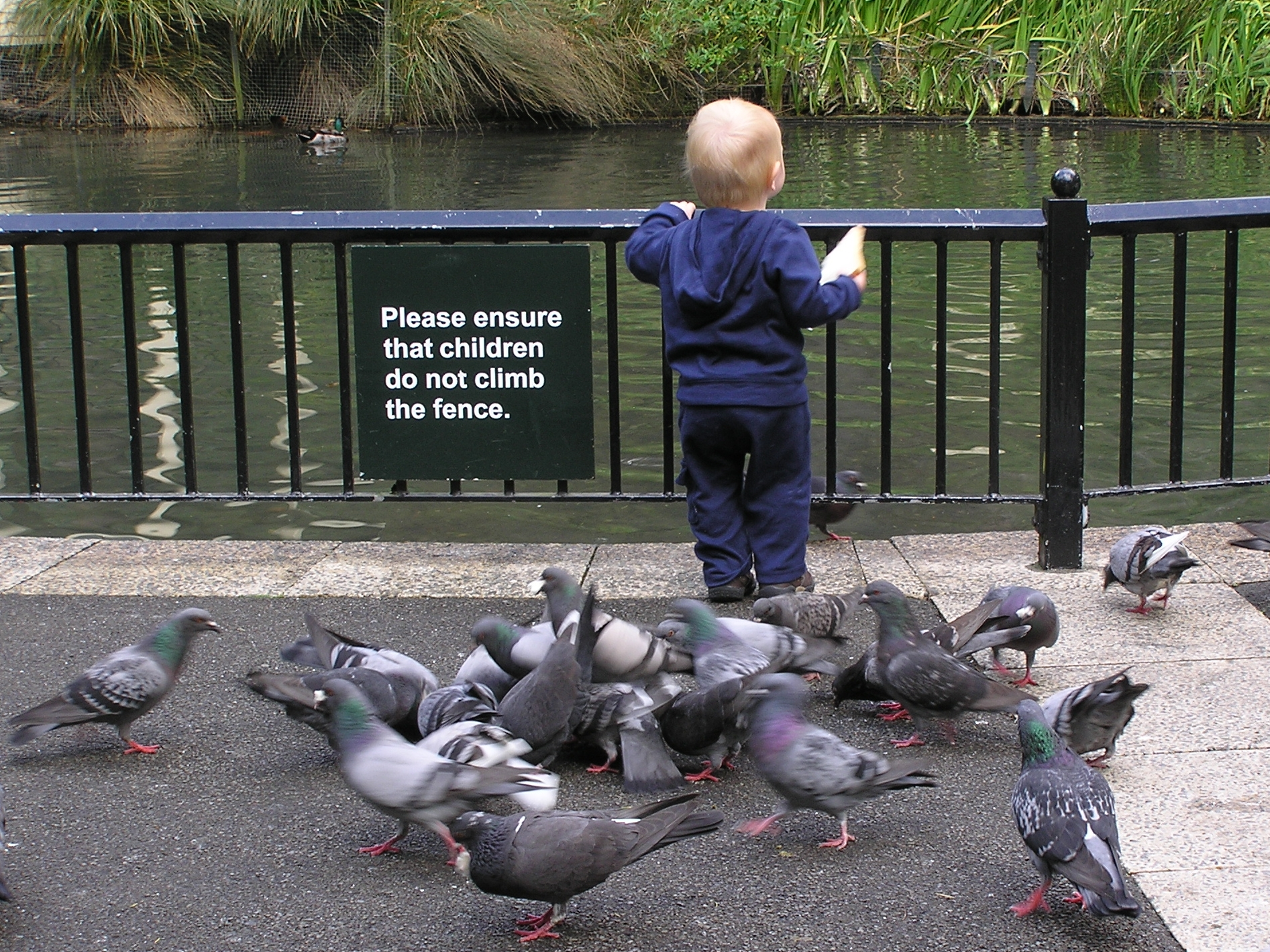 A style of fencing designed to be unobtrusive but difficult for young children to climb. Duck pond, Wellington Botanic Garden, Wellington, New Zealand